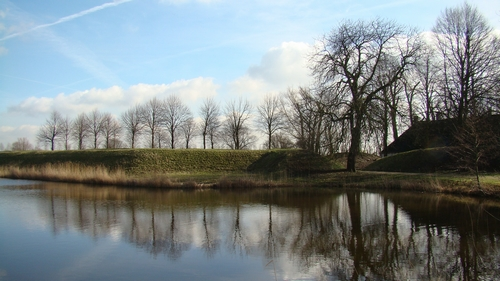 fort wickerschans at bodegraven